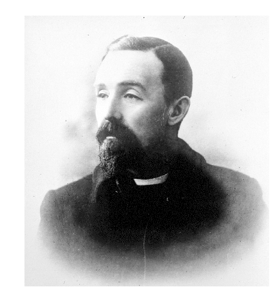 Photo taken 1896 Photograper Unknown BC Archives #B-09815 [1]